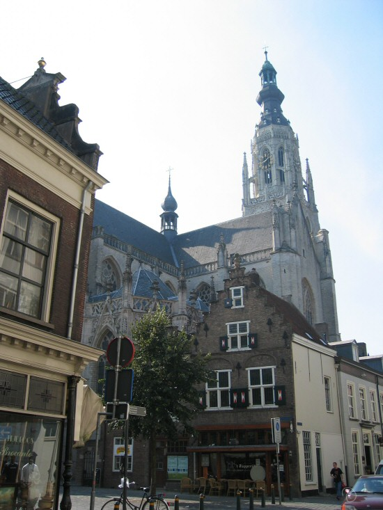 Grote Kerk (main church) also called Onze Lieve Vrouwe Kerk (Church of Our Lady), Breda, September 2003. Picture taken by J Buijs.